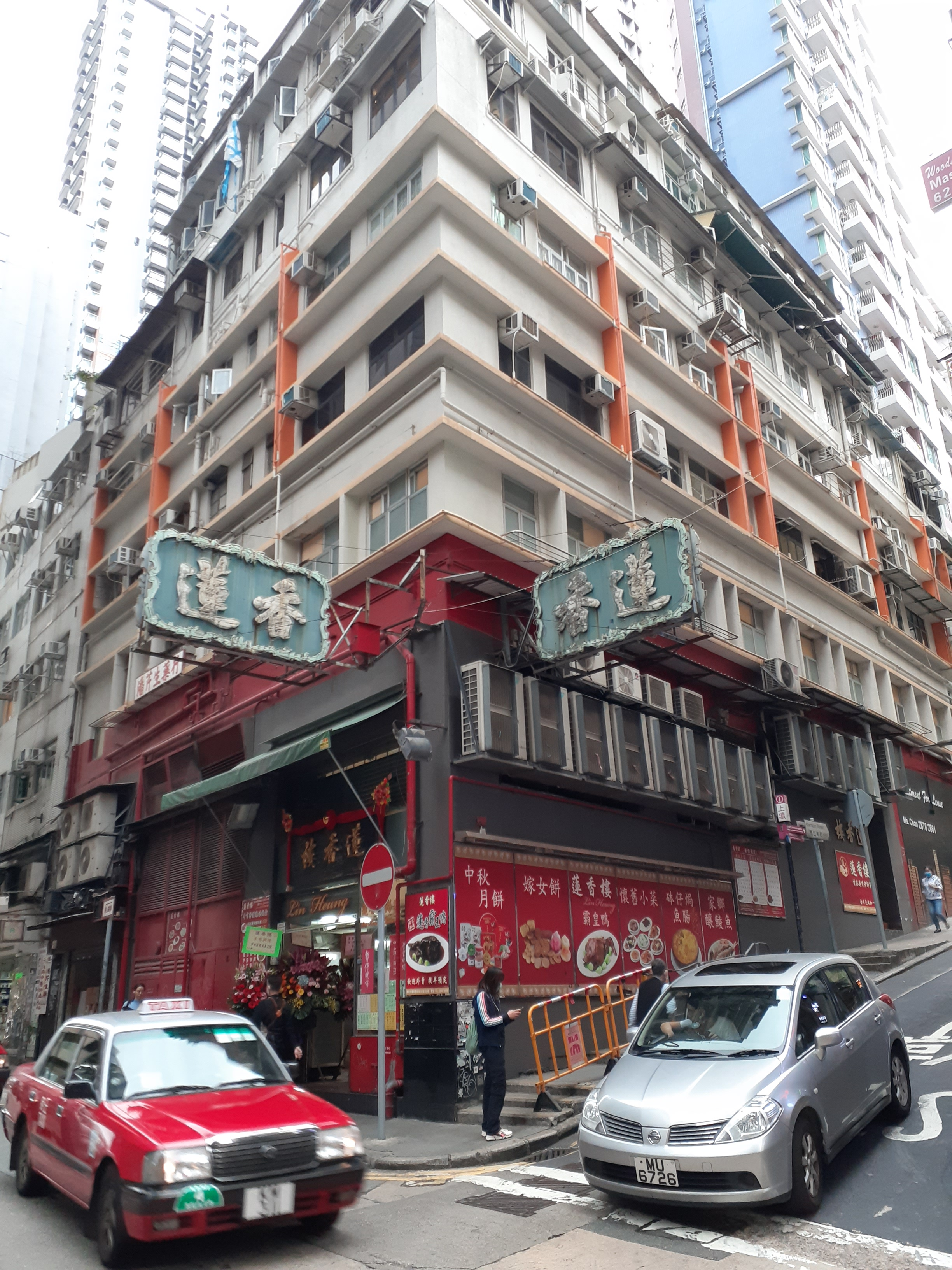 HK 中環 Central 威靈頓街 Wellinton Street shops in March 2020